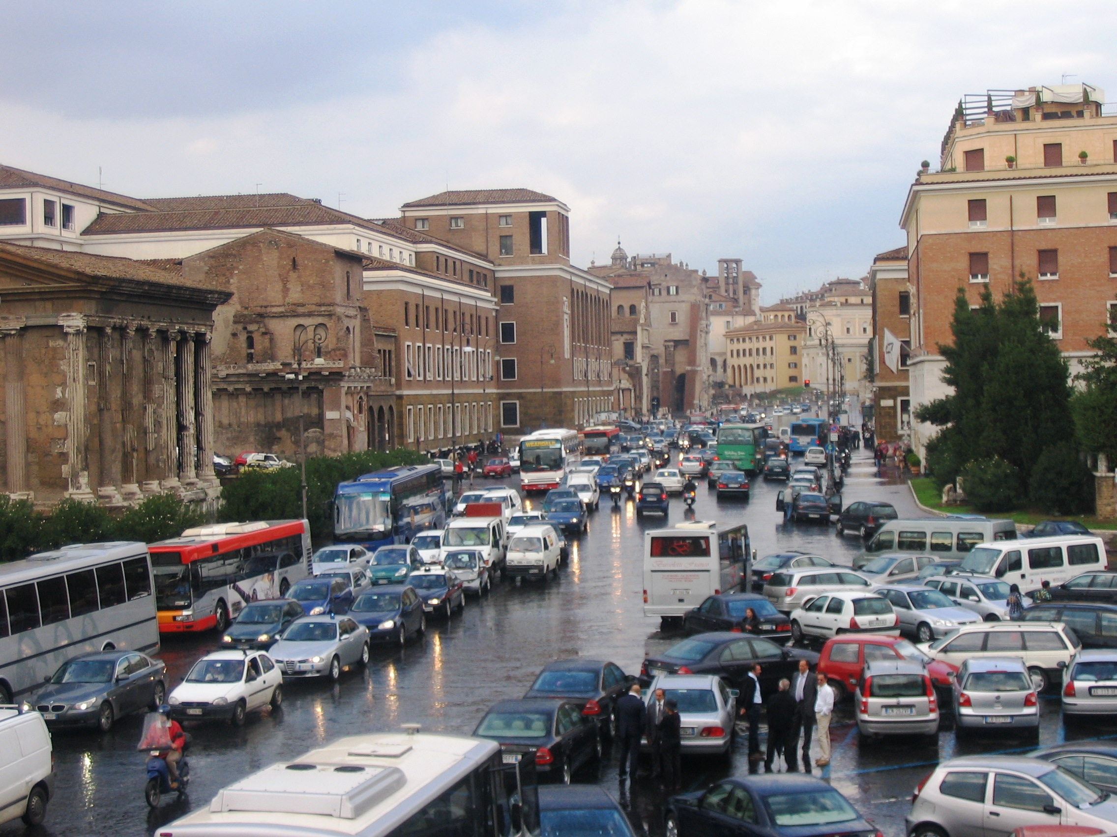 Luigi Petroselli Street (Downtown Rome)